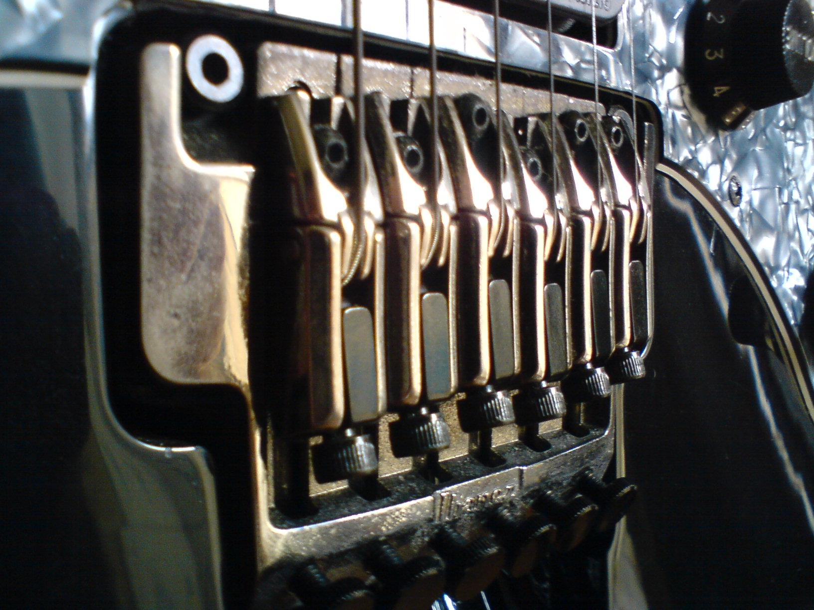 Edge Pro II tremolo from a 2003 Ibanez JEM 555 BK electric guitar